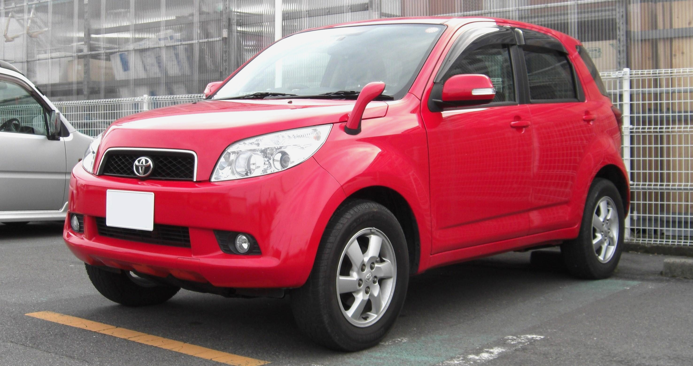 Toyota Rush